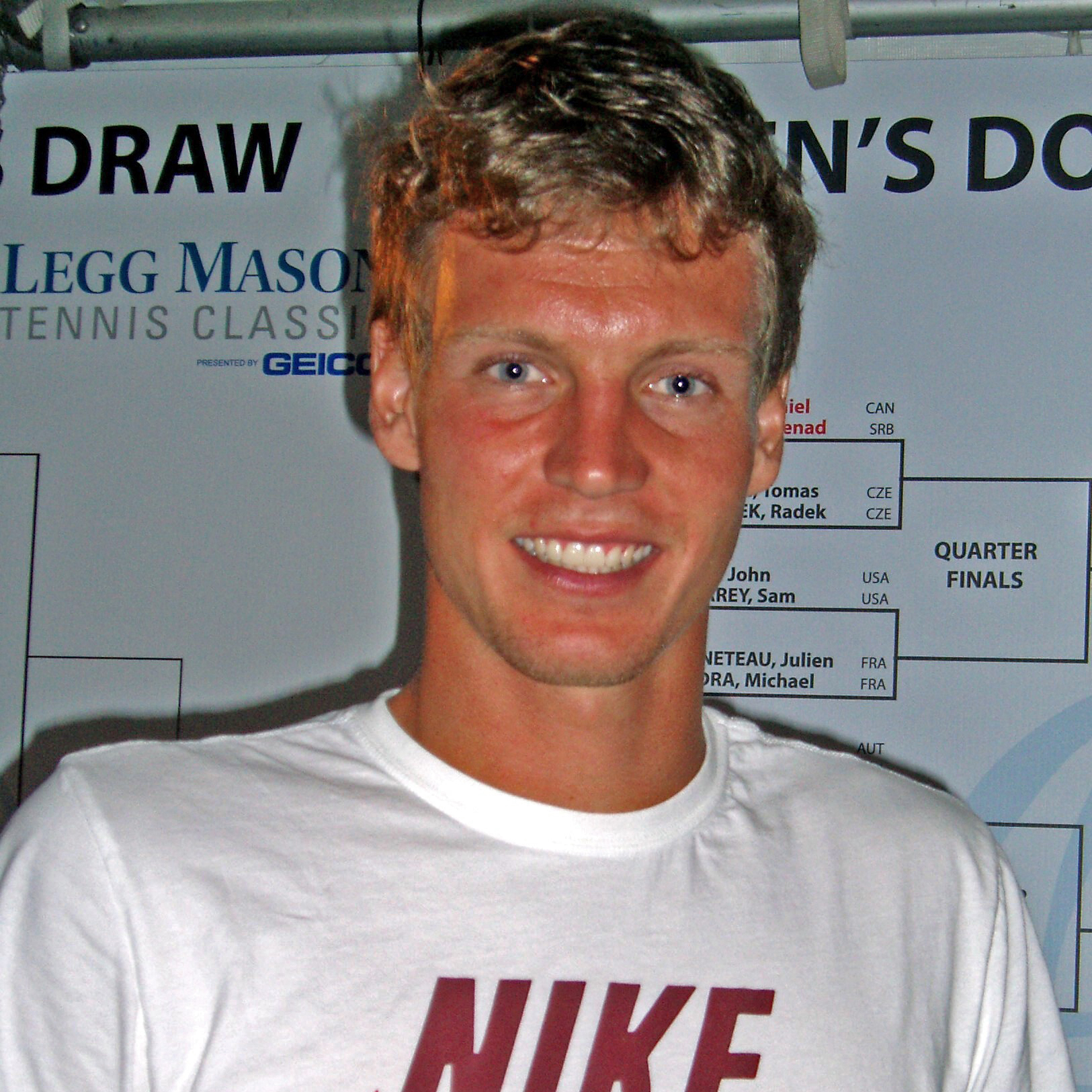 Czech tennis player Tomáš Berdych